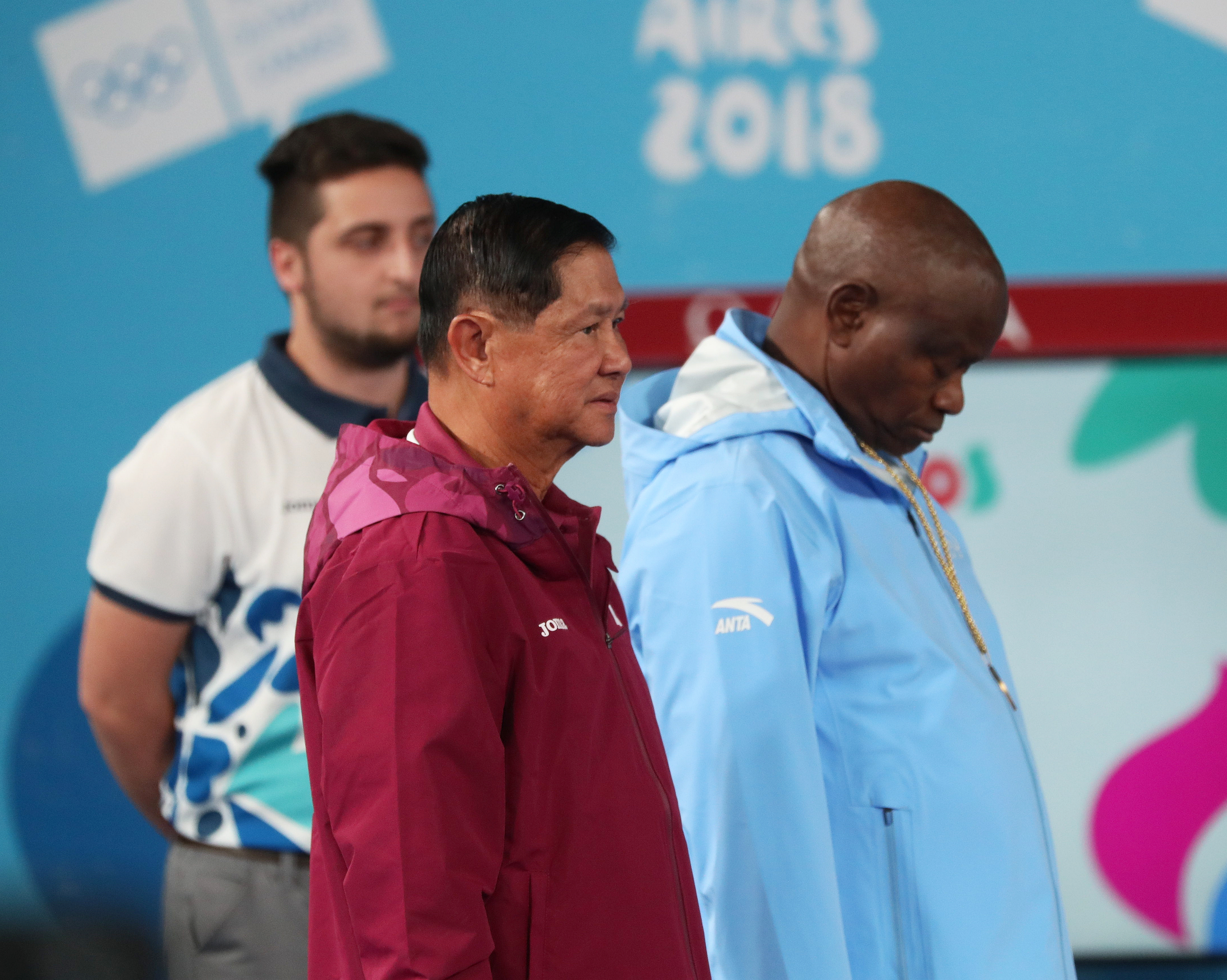 Victory ceremony of the weightlifting girls' 44 kg at the 2018 Summer Youth Olympics in Buenos Aires on 7 October 2018.